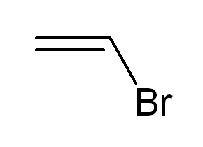 Created using: ACD/ChemSketch